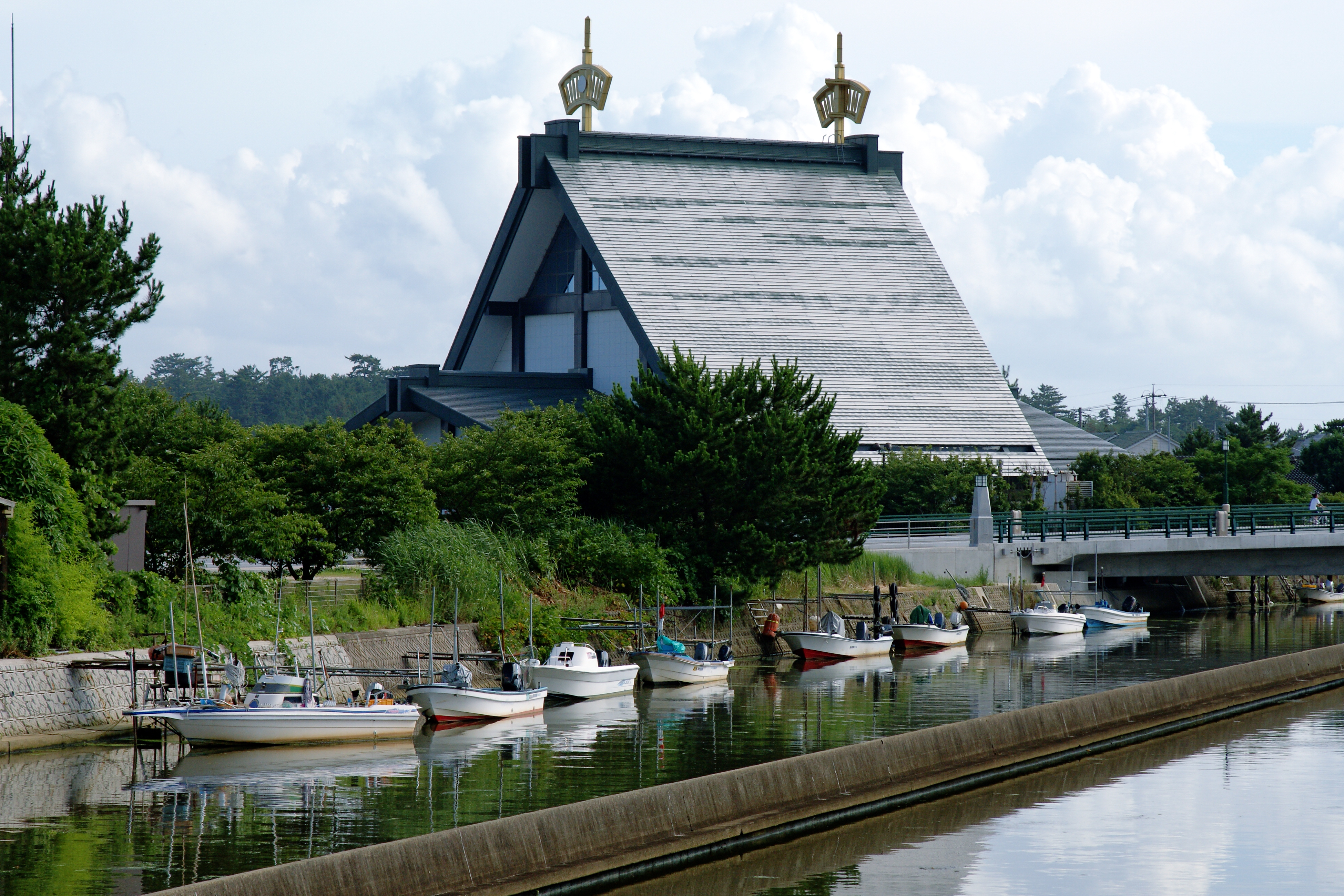 Michinoeki Taisha Goen Hiroba in Izumo, Shimane prefecture, Japan